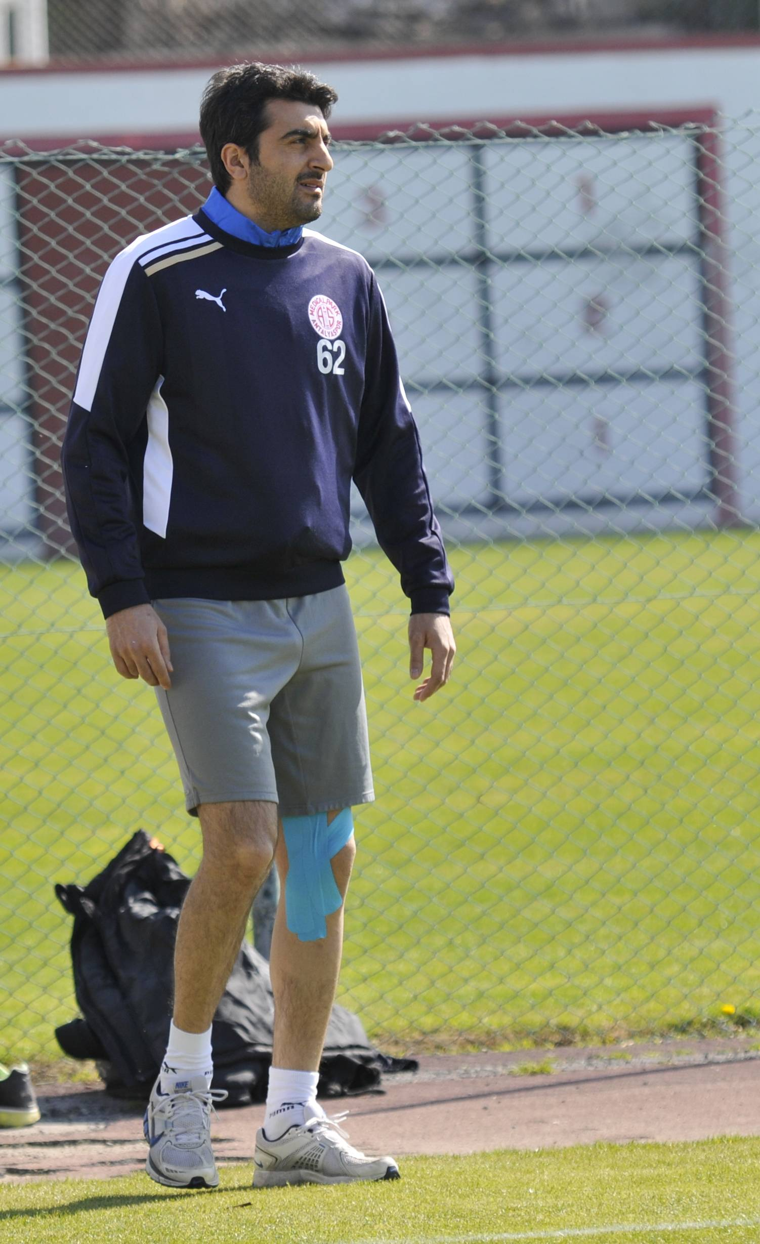 Photo : Murat Özgen